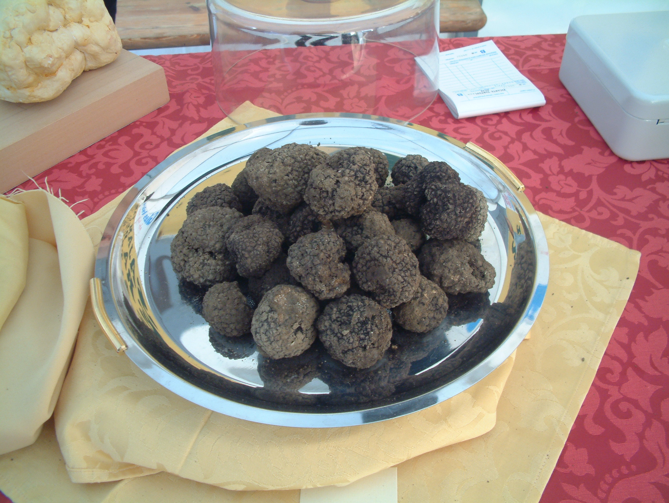 Black truffles, mushrooms, Mirna river valley, Croatia. K. Korlević